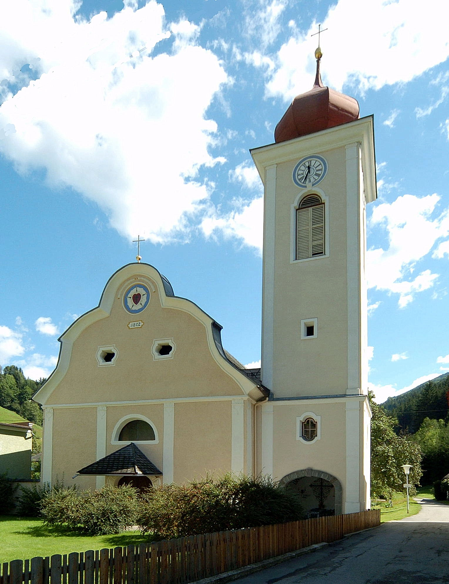 Protestant parish church at Eisentratten, municipality Krems in Kärnten, district Spittal an der Drau, Carinthia / Austria / EU